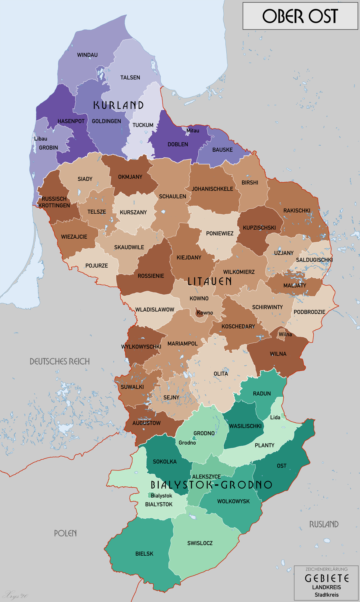 Administrative map of the Ober Ost. Source map data courtesy of maps4u.lt and .